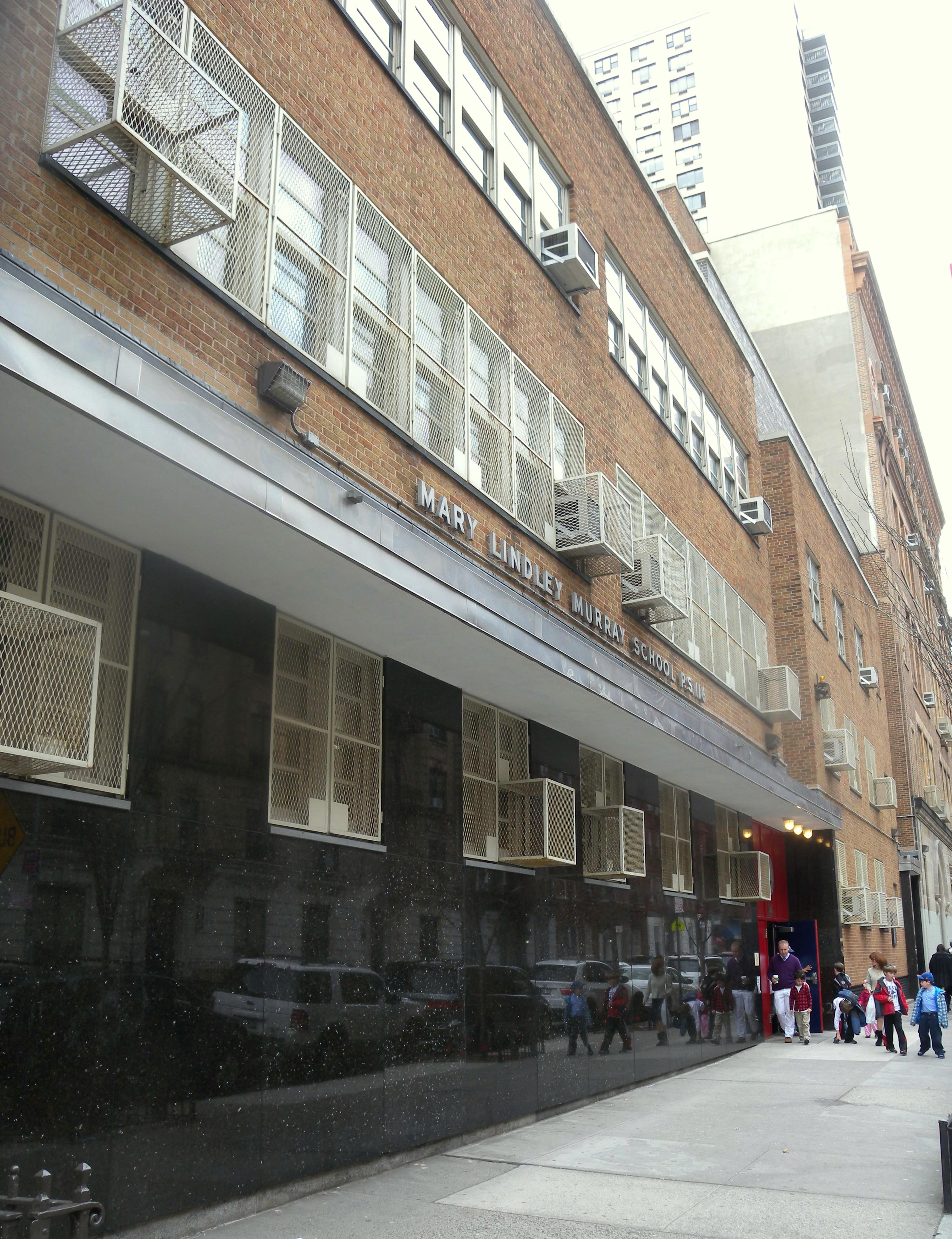 Looking west along East 33d Street at PS 116, the Mary Lindley Murray School on a cloudy midday.